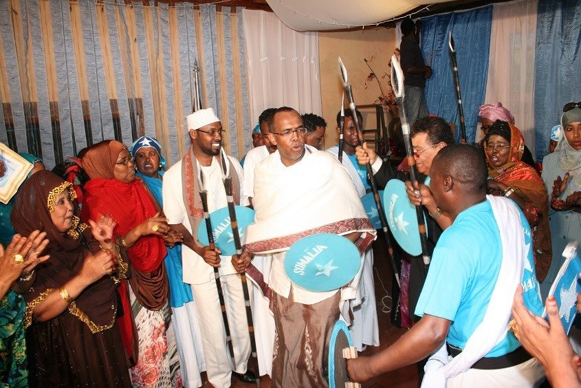 Mohamed Ali Nur Americo during Presidential campaigns in Mogadishu late 2016